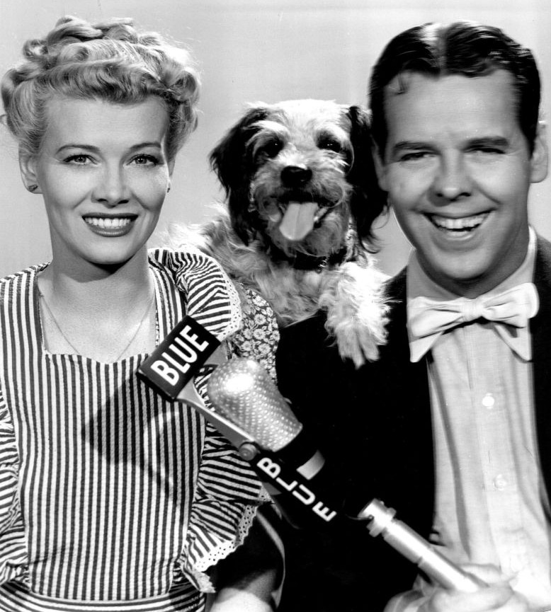 Photo of Penny Singleton as Blondie and Arthur Lake as Dagwood Bumstead from the radio program Blondie. The photo was sent to announce that the program would now be carried on the Blue Network.